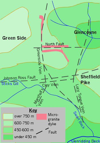 Sketch map of the topography and geological features around Greenside Mine, Cumbria